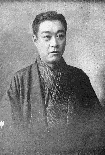 Naoyuki Matsudaira (Count)